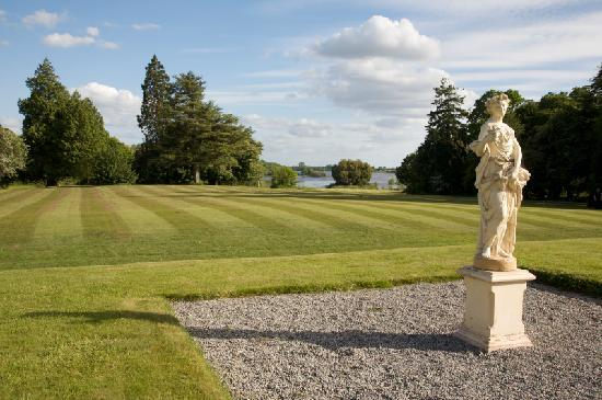 Statue with Lough Rynn in the background